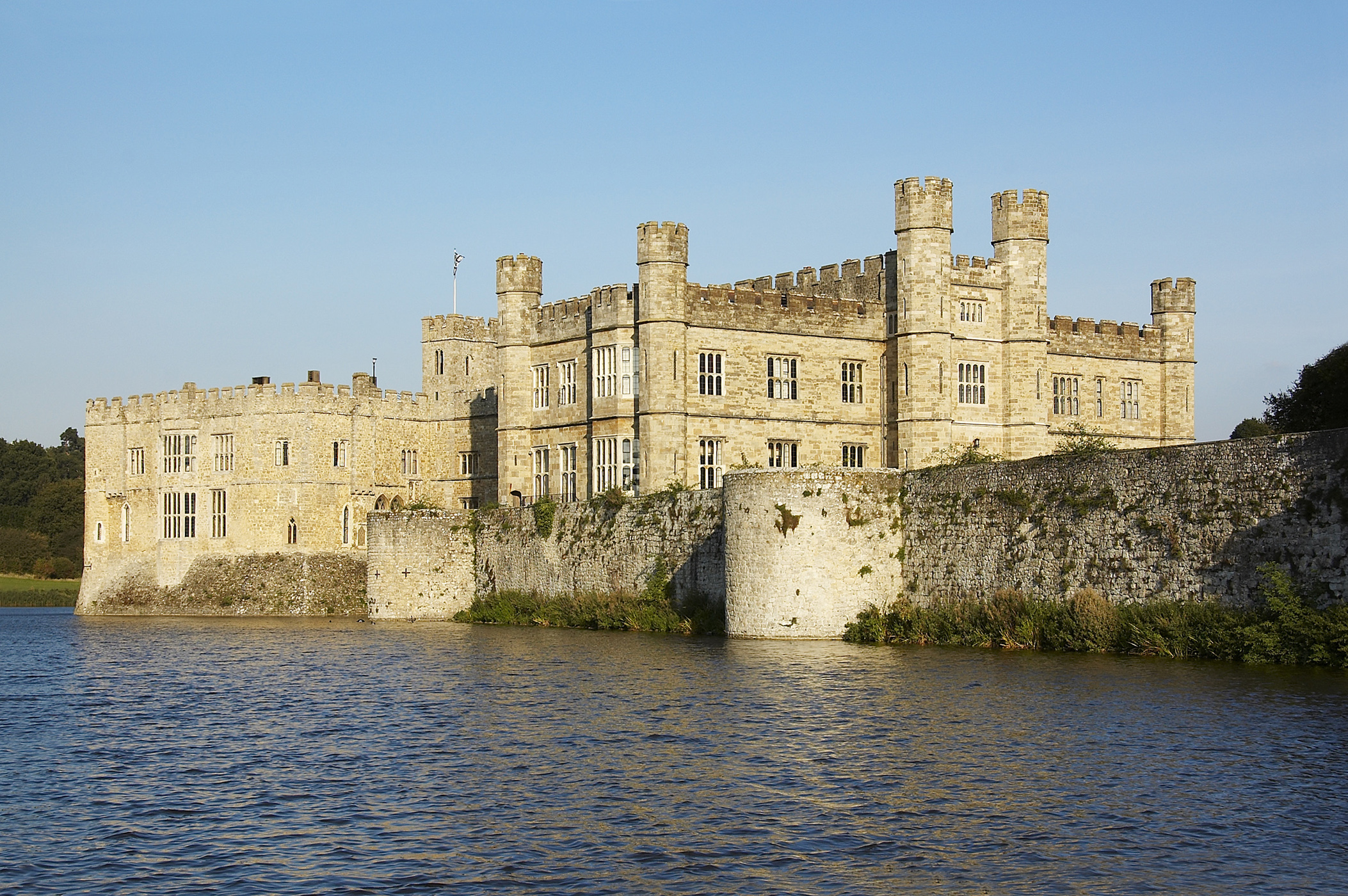 Leeds Castle in Kent UK